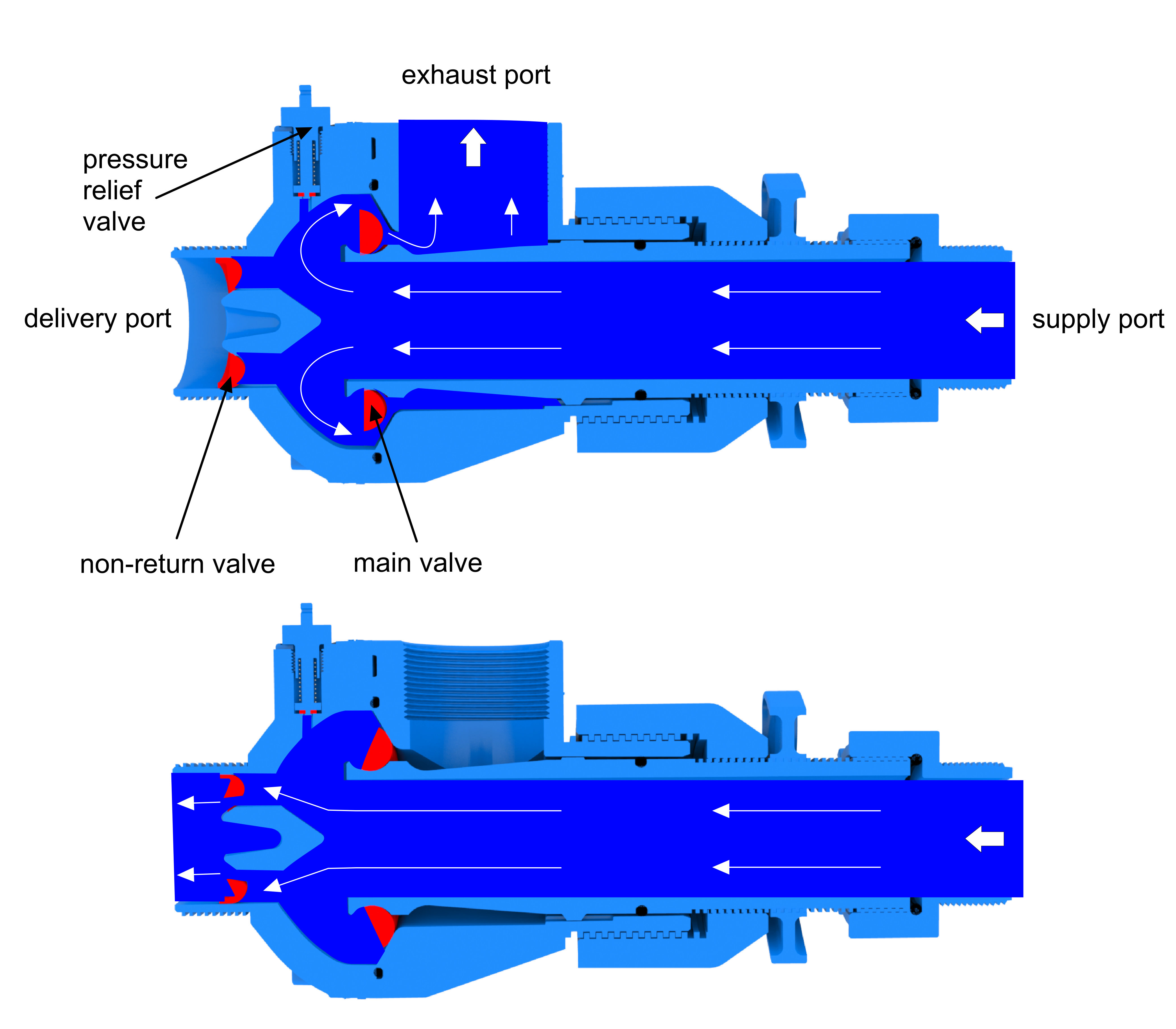 Principles of operation of the Papa hydraulic ram pump